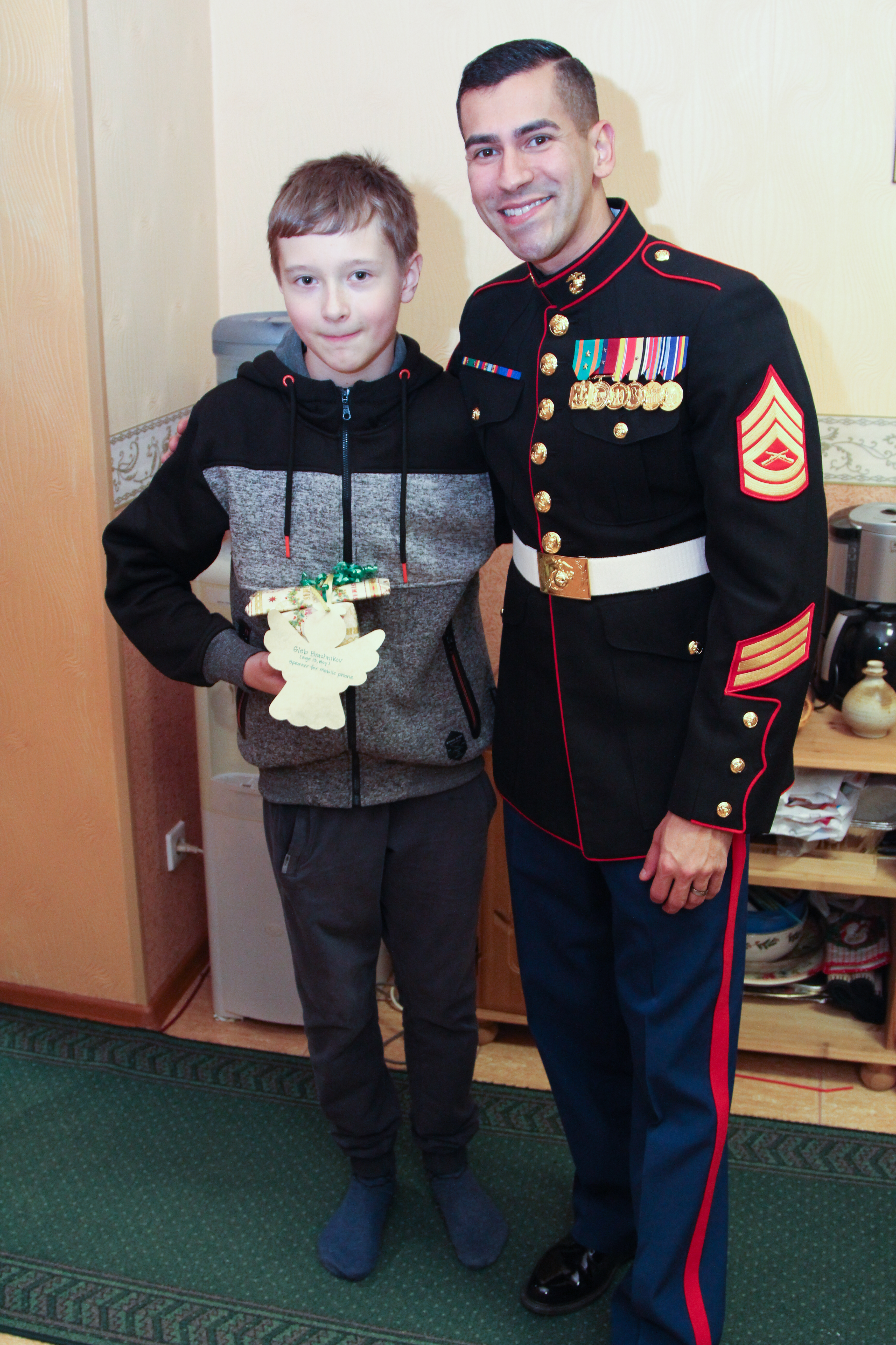 2017 Marines' Toys for Tots in Sillamäe